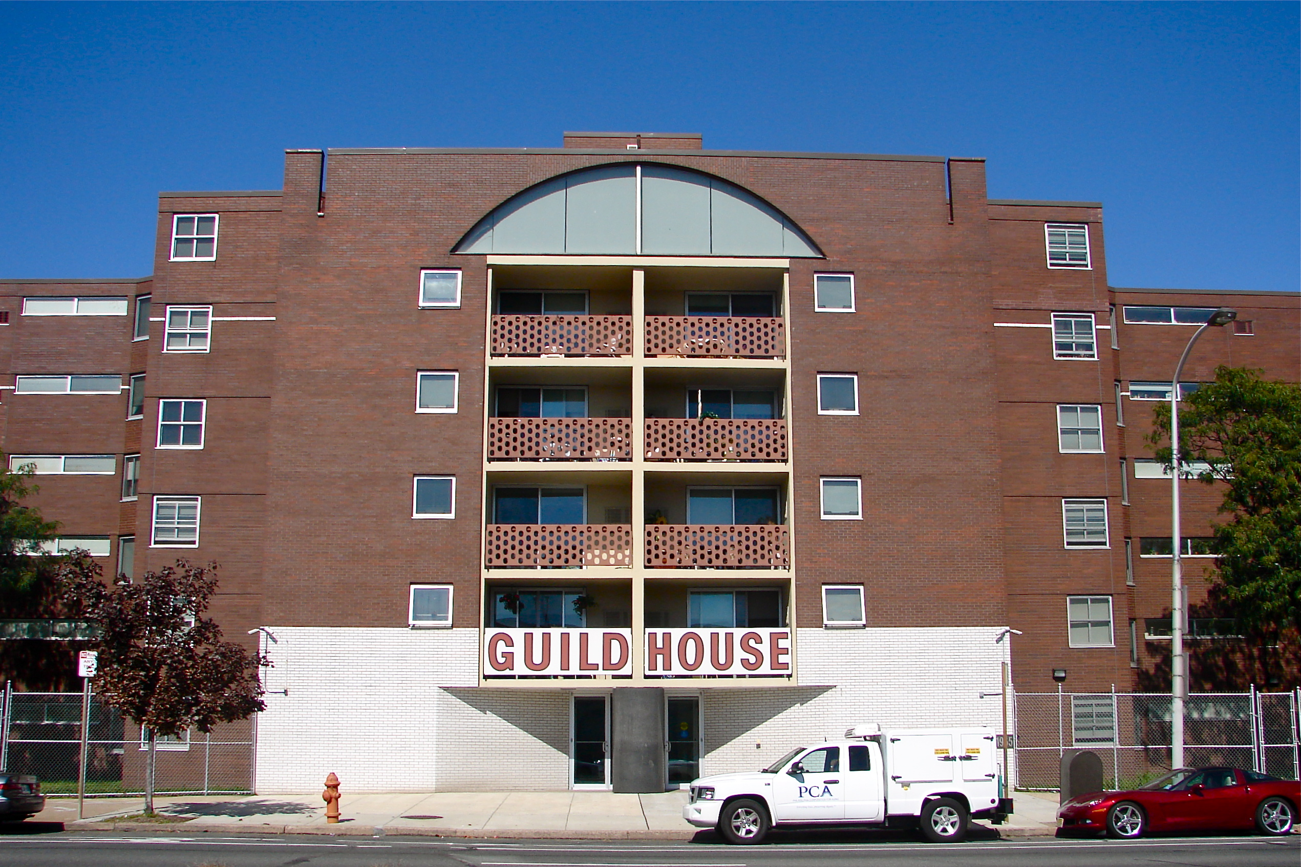 The Guild House by Robert Venturi at Seventh and Spring Garden in Philadelphia, PA (just north of Center City). completed in 1964. One of the first Post-Modern buildings. Coords 39.961761,-75.150797